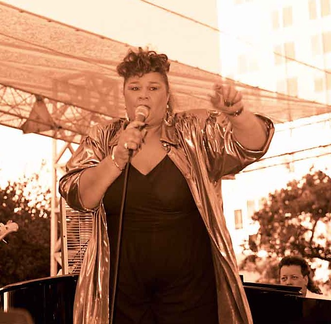 Etta James, 2000 Music in the Park San Jose California